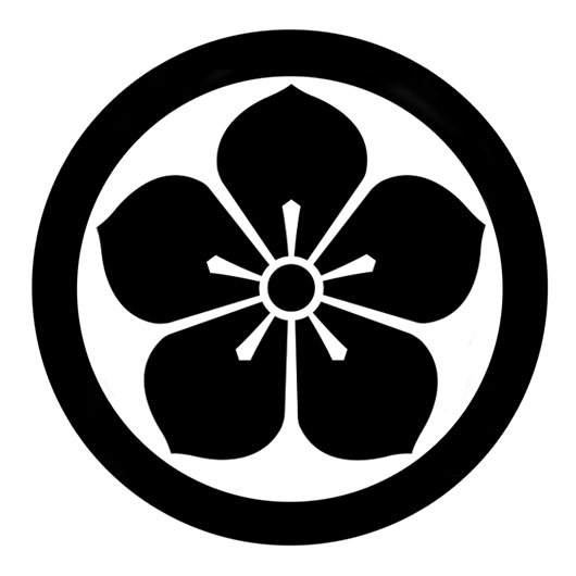 Japanese family coat of arms. Kamon „Maru ni Kikyo“ in Japanese.